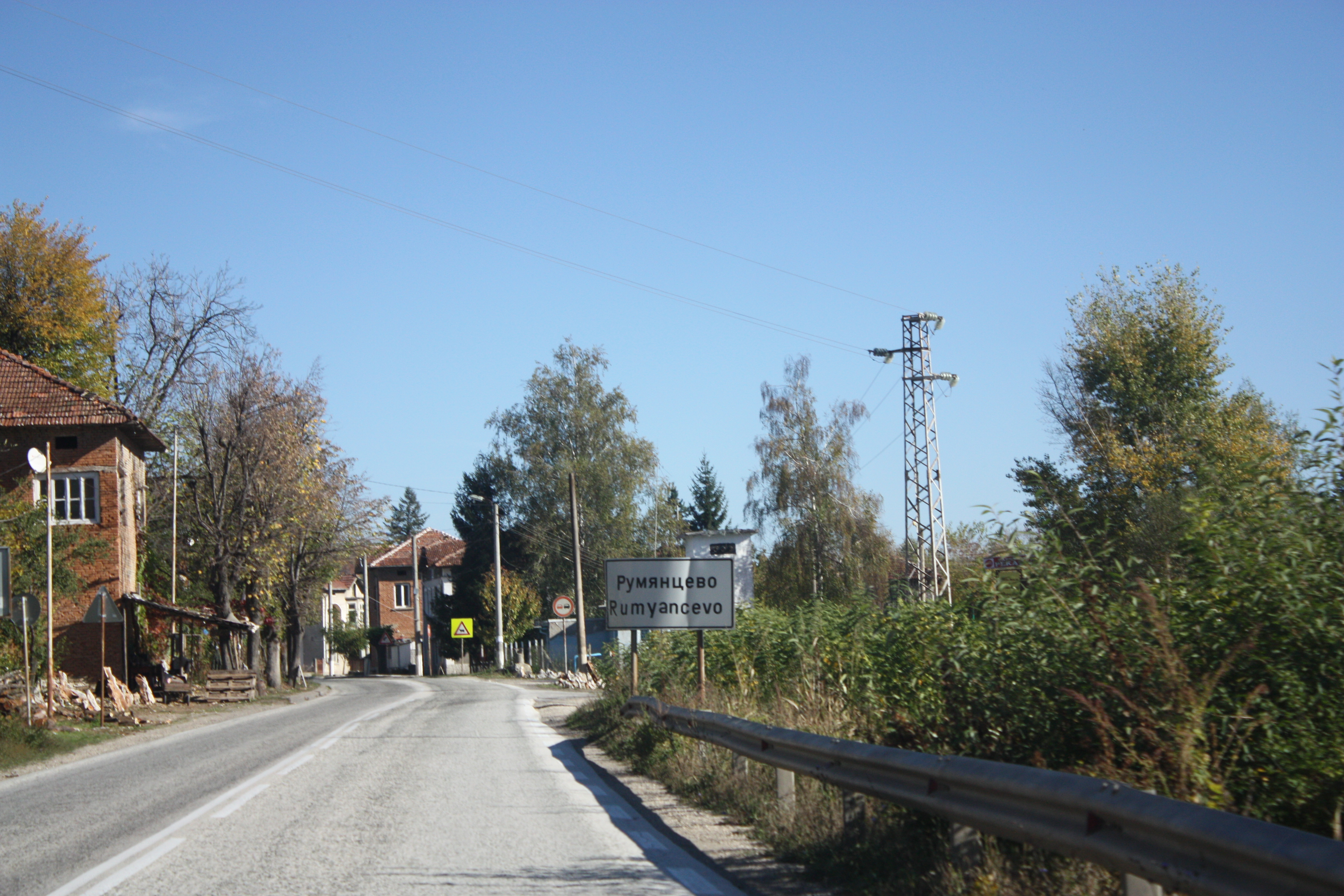 Entry roar to Rumyantsevo